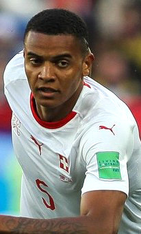 Manuel Akanji